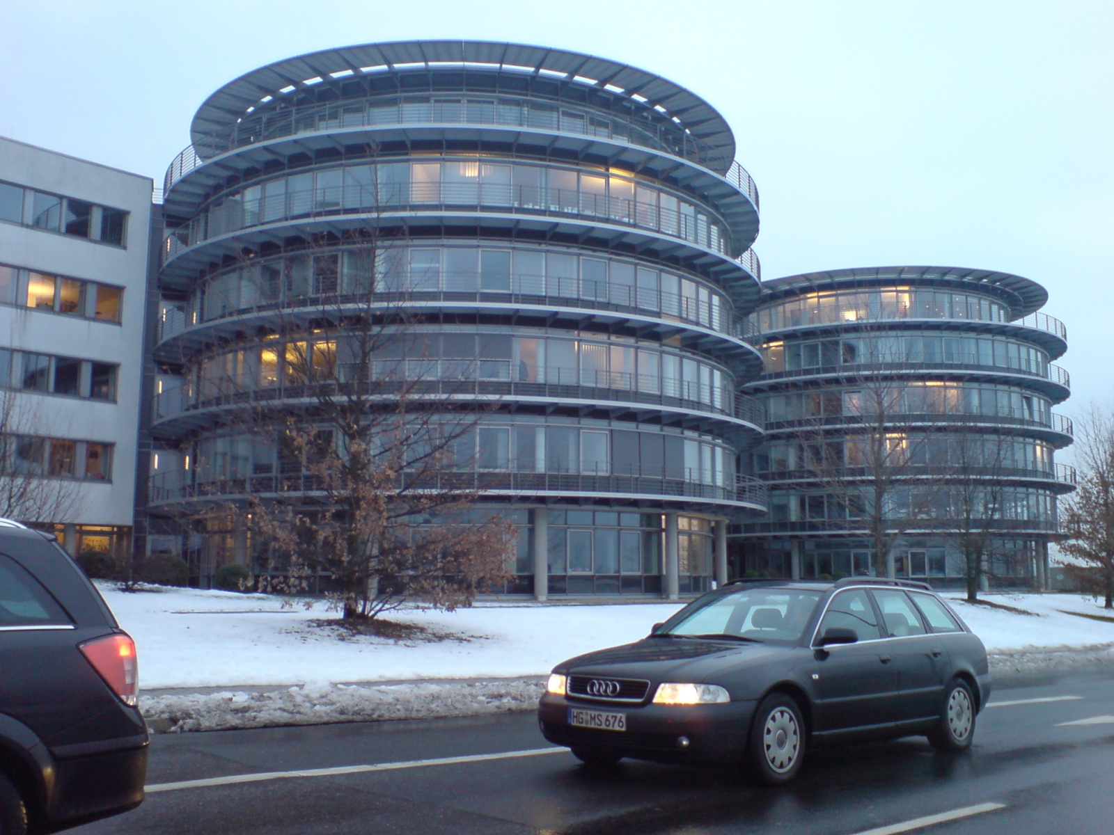 Several round buildings in Bad Homburg vor der Höhe, Germany.